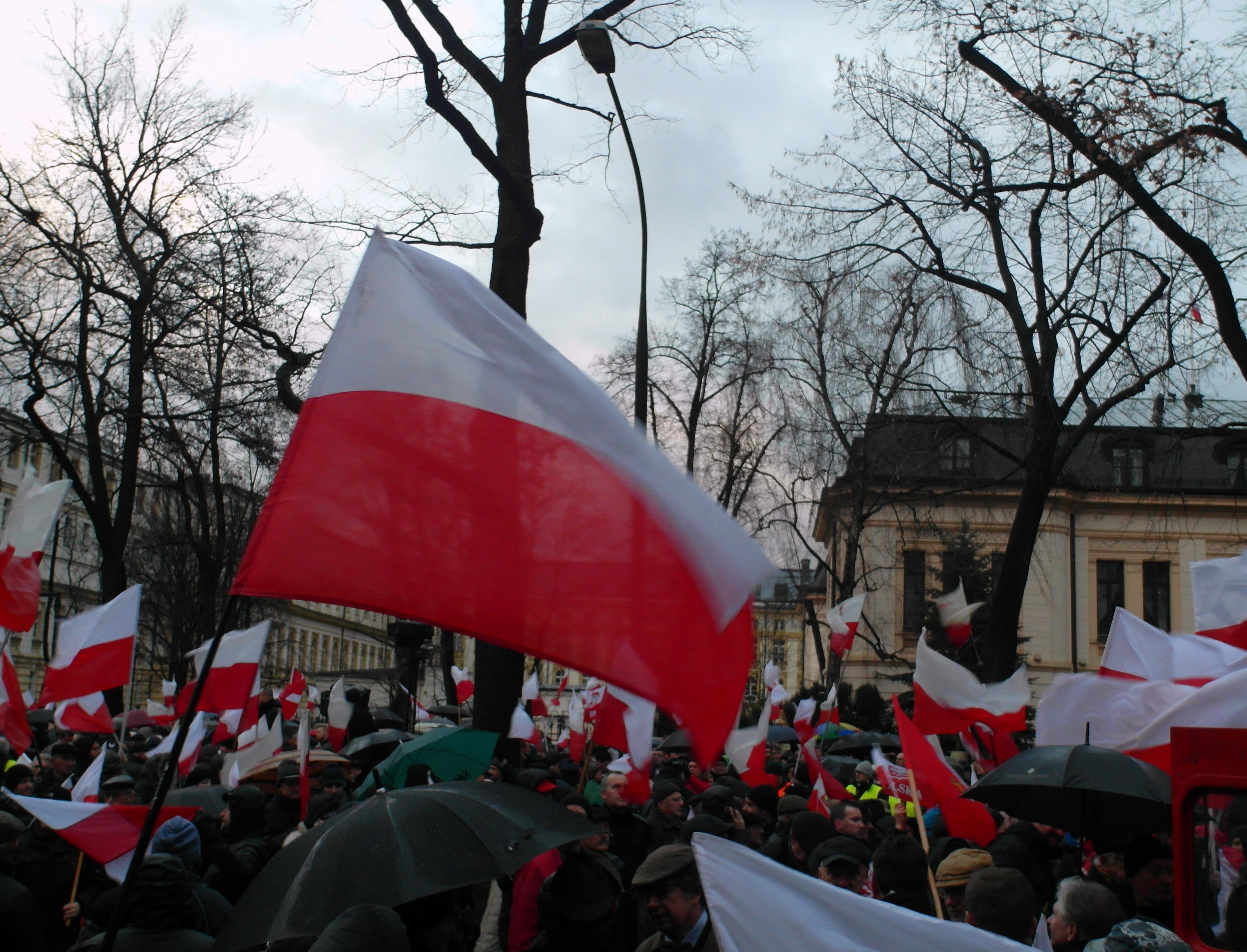 Demonstration of supporters of changes to the law on the Constitutional Tribunal in Poland 13 12 2015